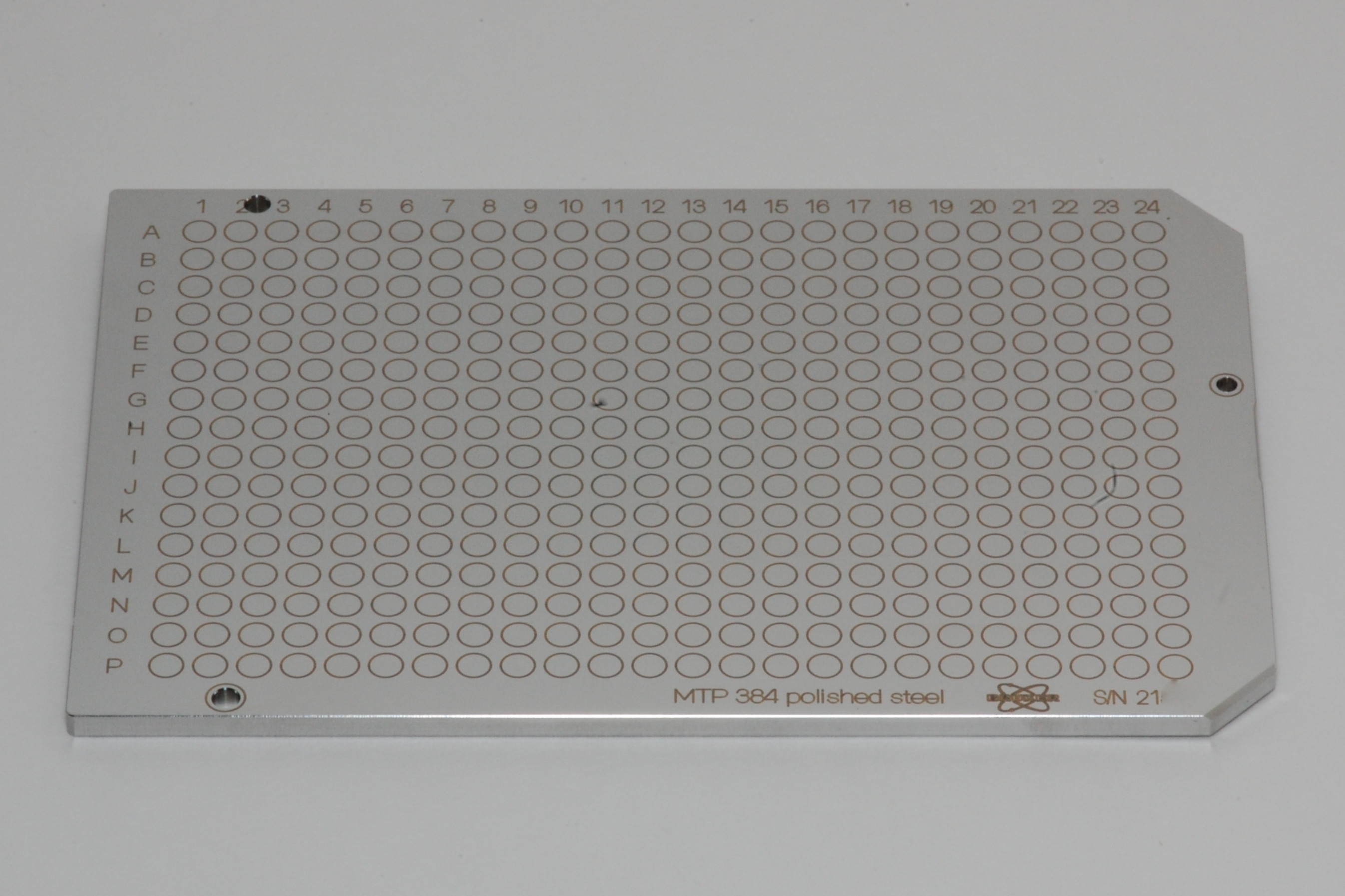 A 384 spot target for MALDI mass spectrometry.